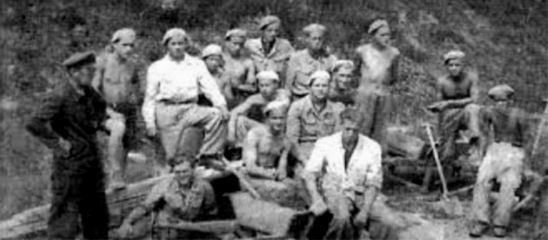 Baudienst in occupied Kraków (suburban Czyżyny area of the General Government), circa 1941. Second from right (leaning against massive wheel-barrel), is Karol Wojtyła, future Pope Saint John Paul II. First from right, Henryk Czerniak.